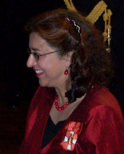 Former Mayor of Dunedin Sukhi Turner